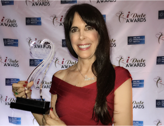 Portrait